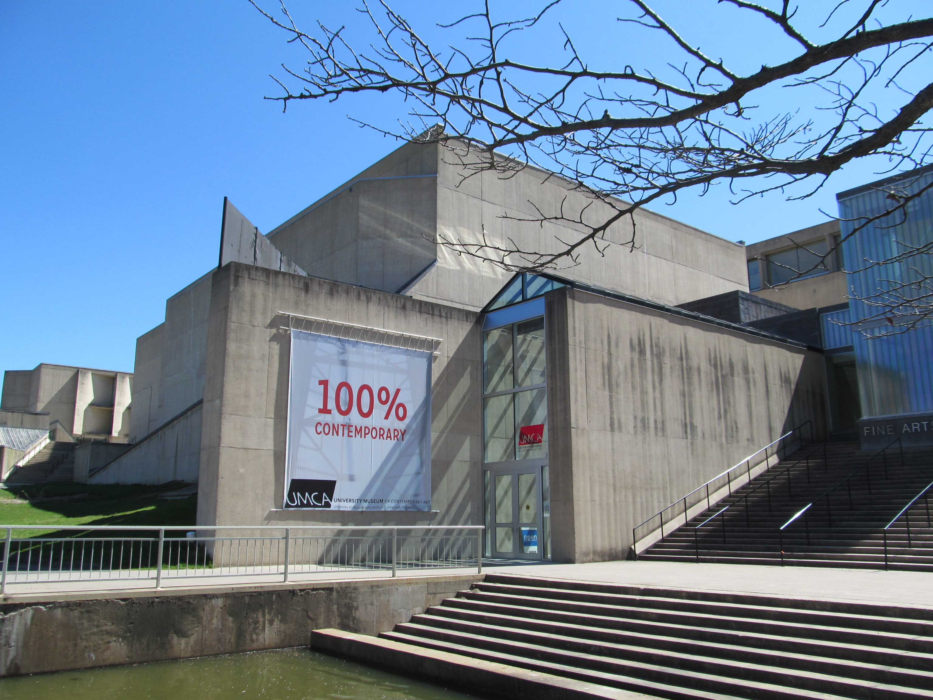 University Museum of Contemporary Art — at the Fine Arts Center, of the University of Massachusetts Amherst Exclusively a Contemporary art museum — in Amherst Massachusetts